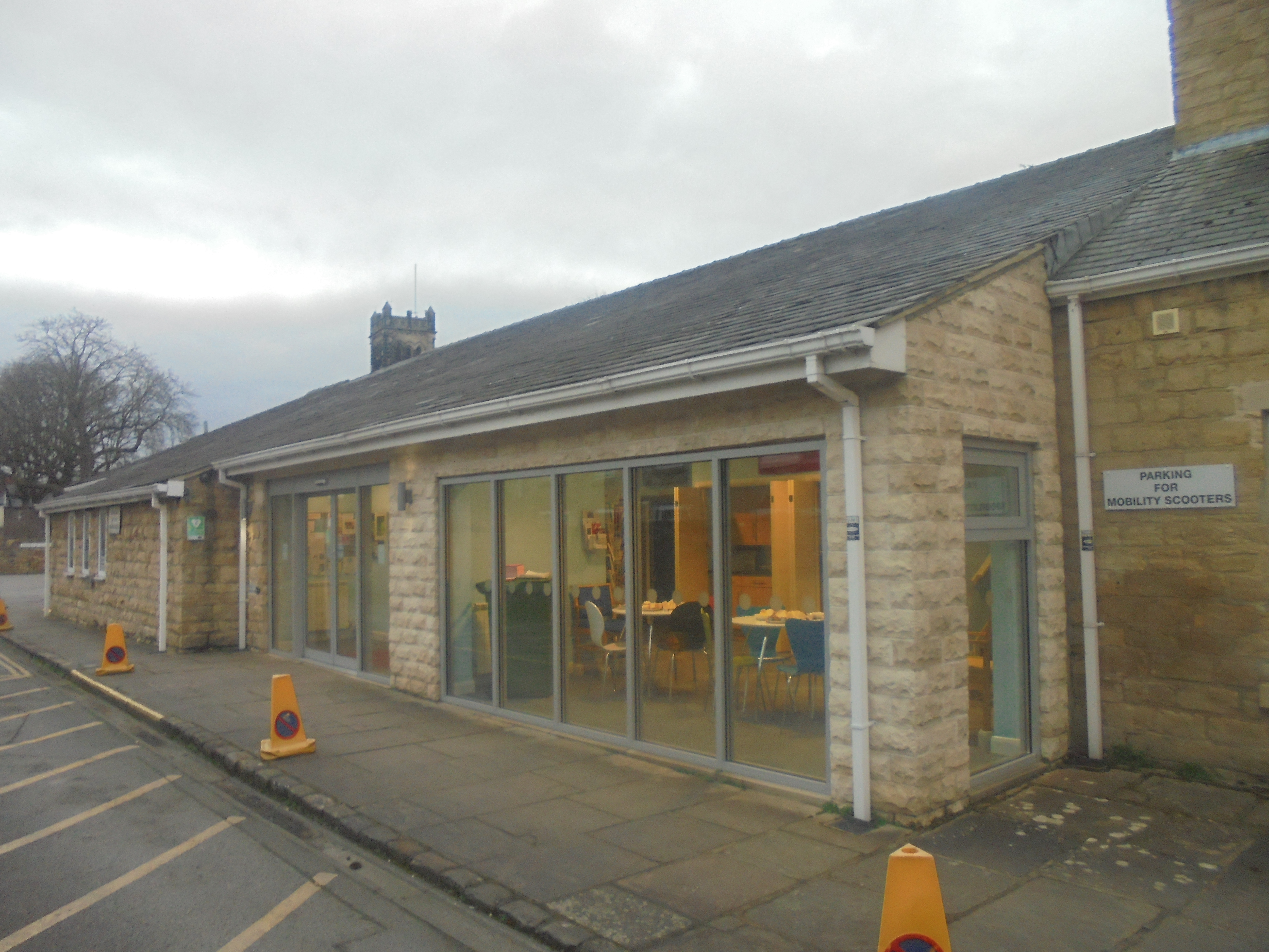 Wetherby Methodist Church, Bank Street, Wetherby, West Yorkshire. Taken on the afternoon of Saturday the 25th January 2020.